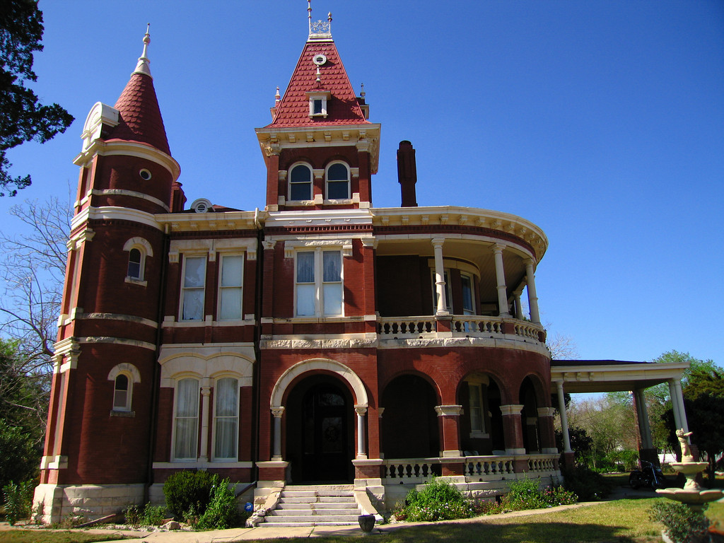 Texas cattle baron J.D. Houston completed his house at 619 St. Lawrence St. in Gonzales, Texas in 1898 in the Victorian Queen Anne style.